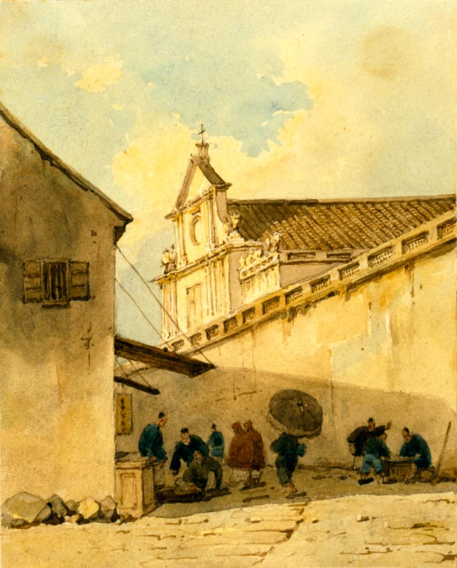 Watercolour on paper of a street scene in Macao.